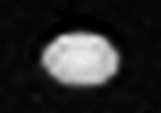 Despina as seen by Voyager 2. There is significant horizontal smearing due to the combination of long exposure needed at this distance from the Sun, and the rapid relative motion of the moon and Voyager.